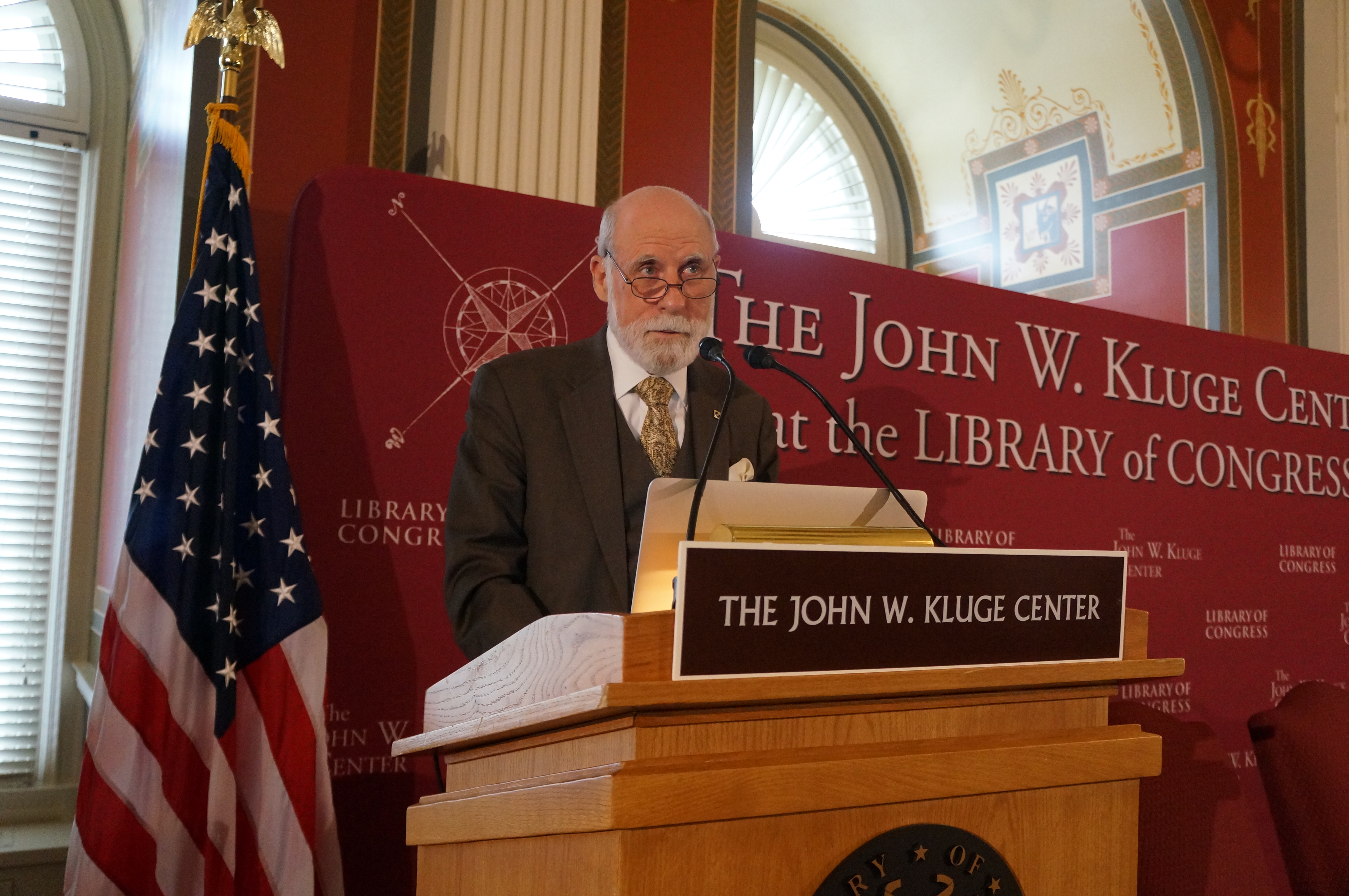 W:en:Vinton Cerf at the lectern presenting his findings at the Saving the Web event at the Library of Congress on June 16, 2016.